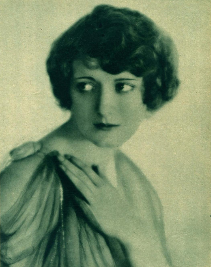 Kathryn McGuire, from a 1923 publication